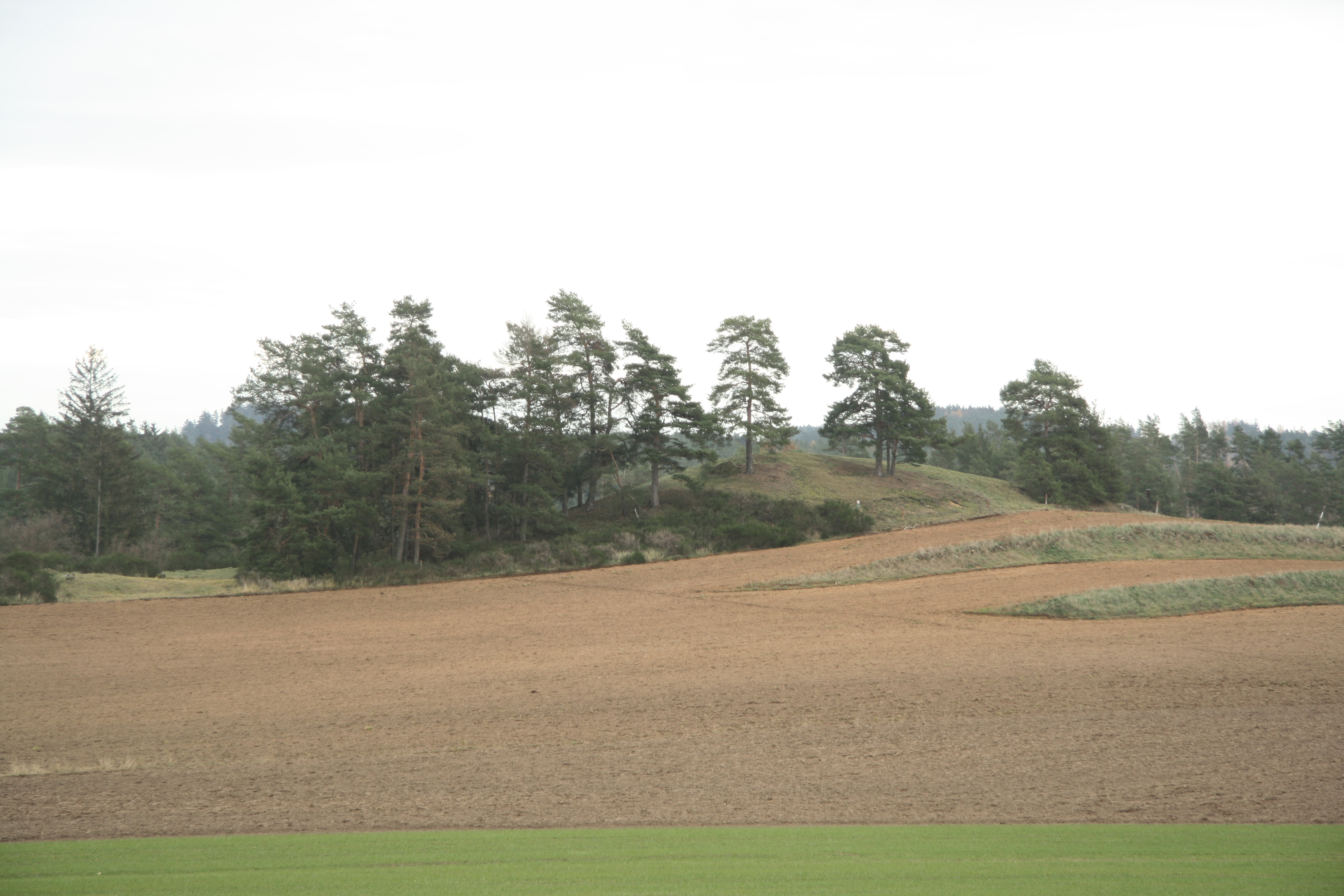 Overview of natural monument Ptáčovský kopeček near Ptáčov, Třebíč, Třebíč District.